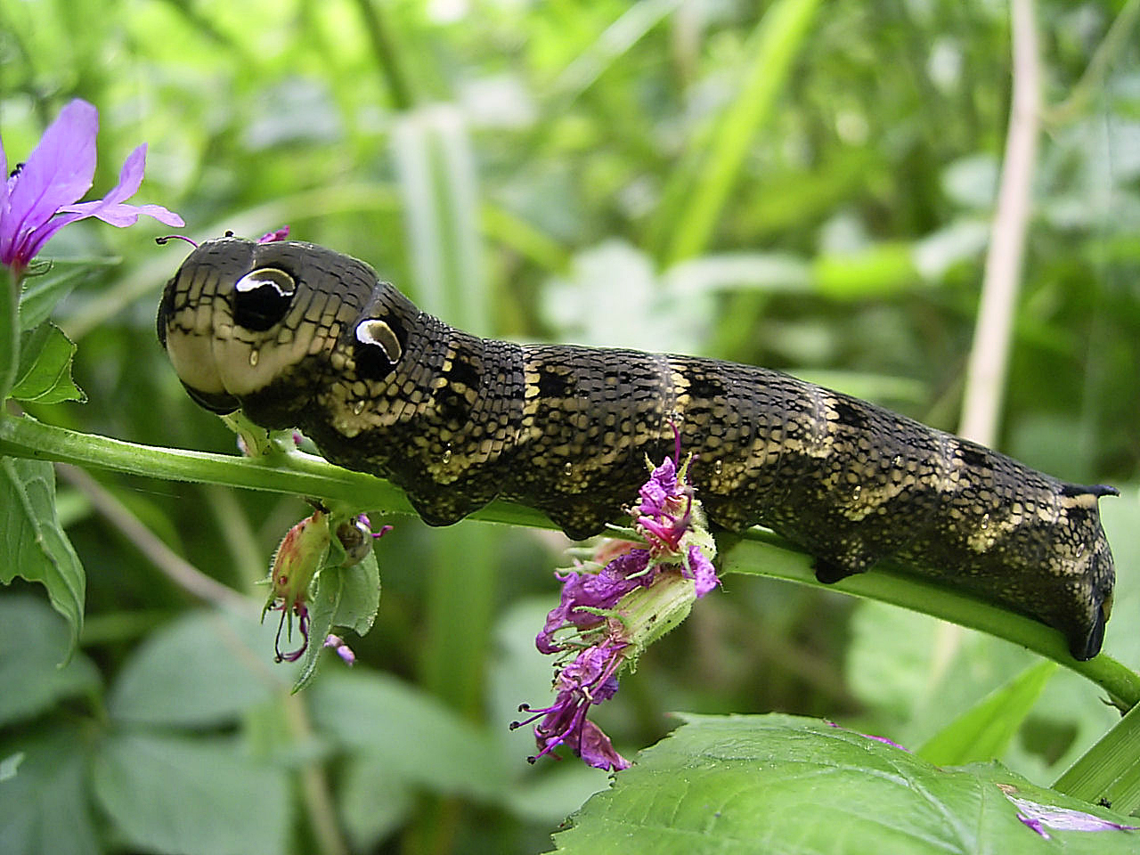 Caterpillar of Deilephila_elpenor